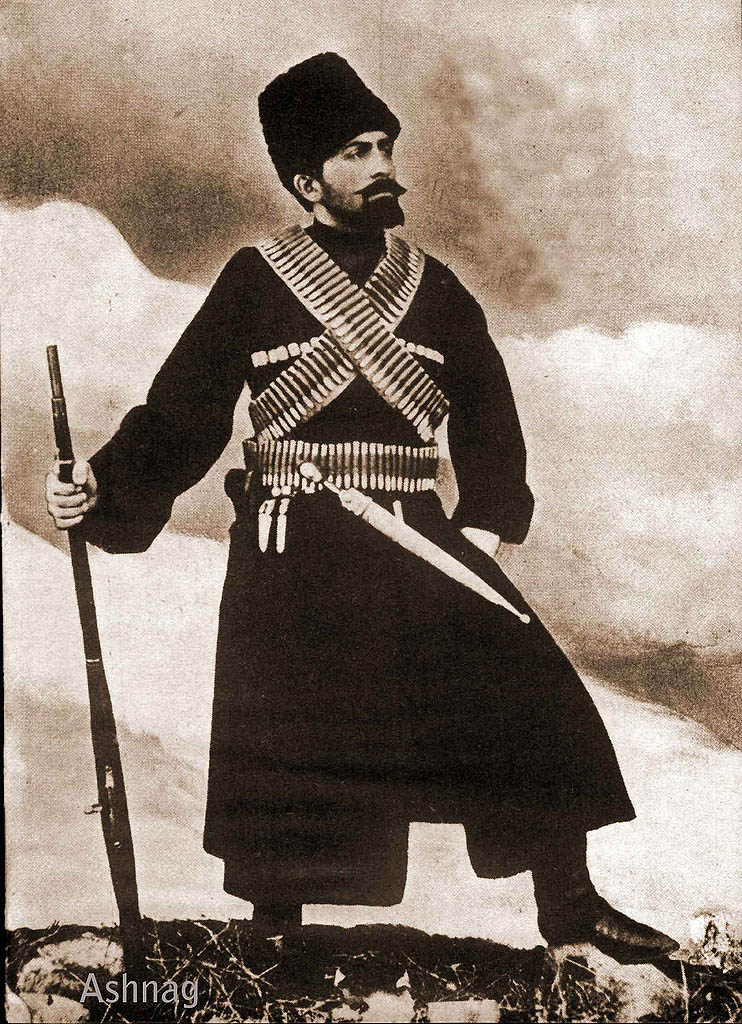 Torgom (Grigor) Tumiants, famed Nagorno Karabakh guerrilla fighter (1879-1906)